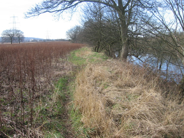 Clyde Walkway near Newton